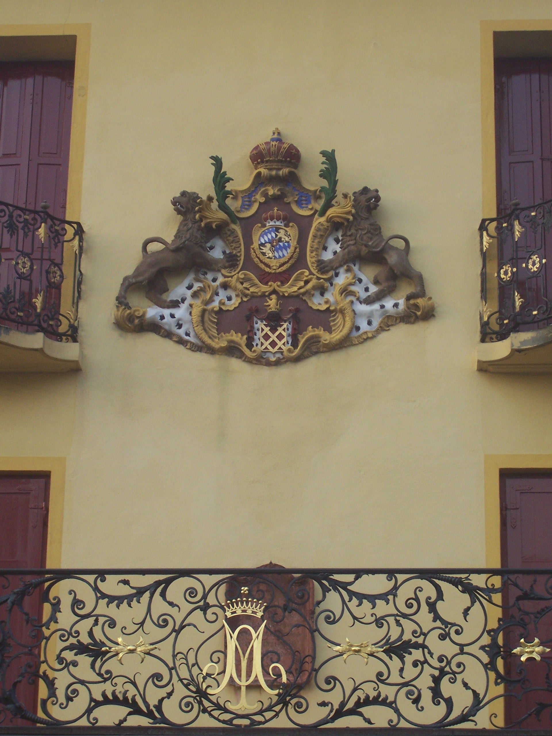 Schloss Obenhausen, Wappen des Hauses Wittelsbach (Kurpfalz), unten Wappen der Grafen von Moy